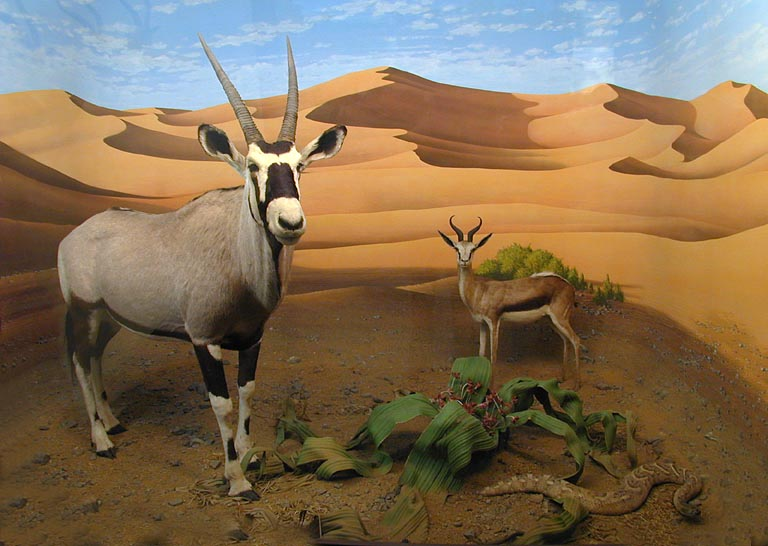 Diorama showing an oryx and an antelope in the Namibian desert. Kept by the museo civico di storia naturale of Milan.